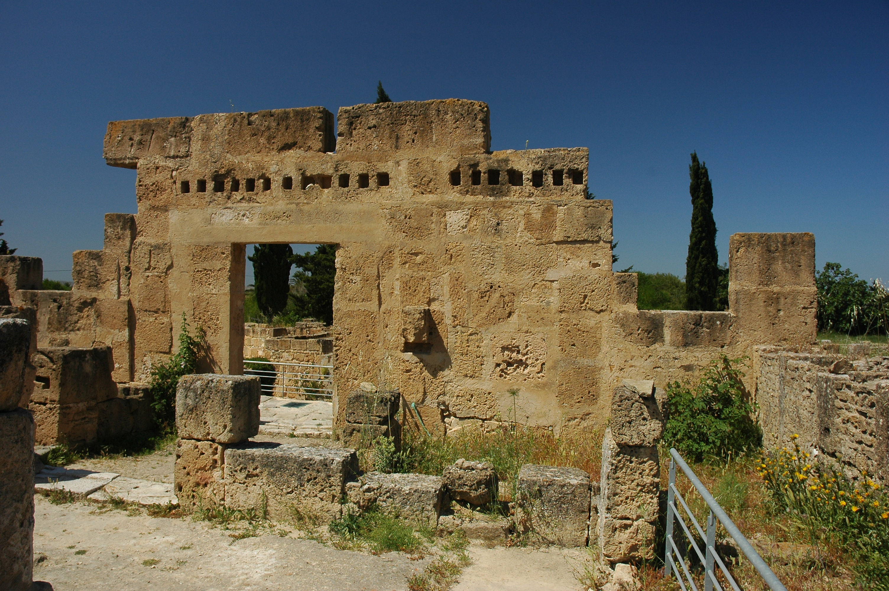 Archaeological site of Utica in Tunisia